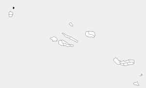 Map of the Azores highlighting Corvo